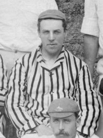 The Kent County Cricket team, circa 1888. Albert Thornton.